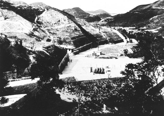 View of Central Ordnance Munitions Depot from adjacent hill (1941)